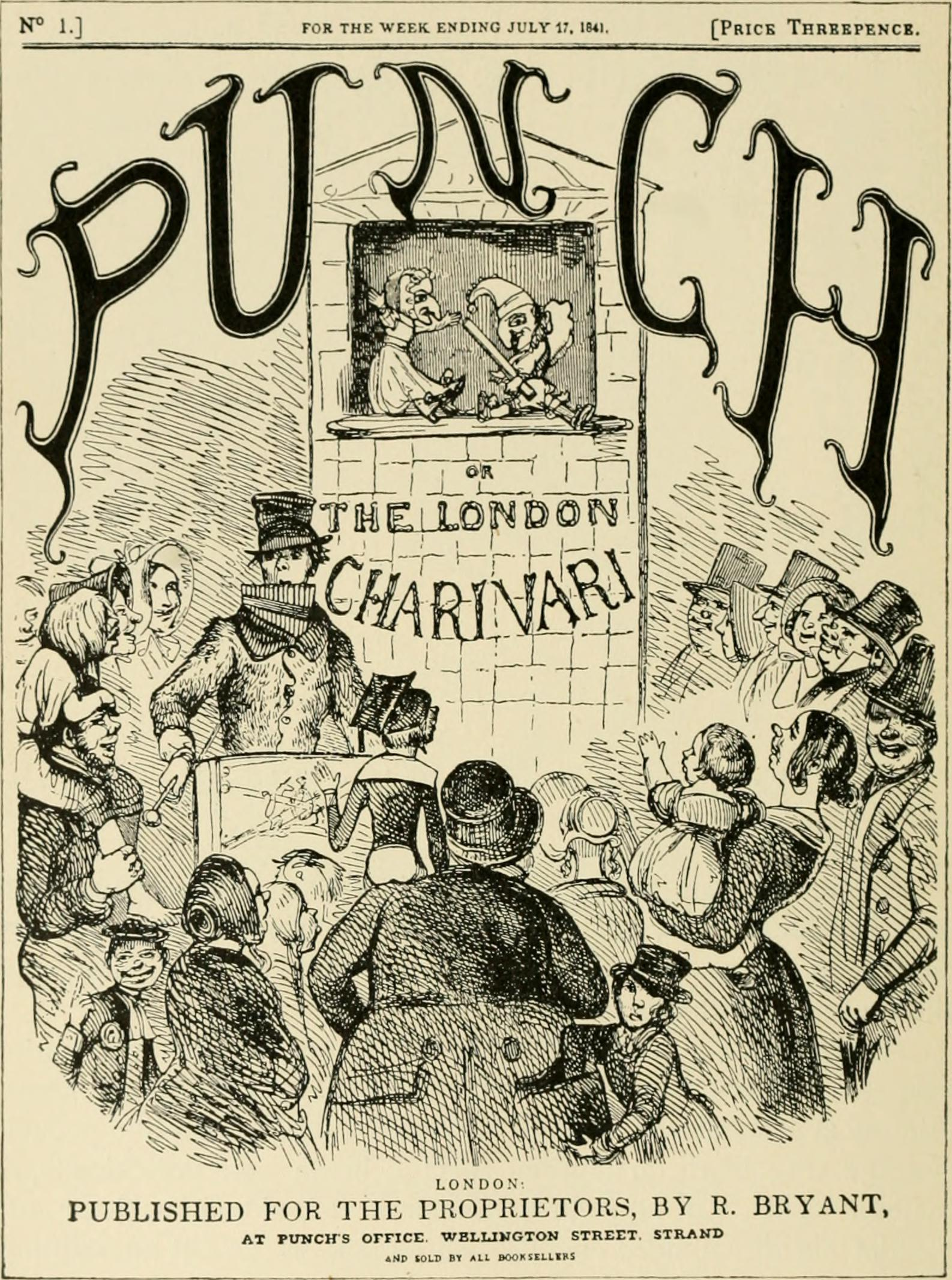 Title: Skämtbilden och dess historia i konsten Year: 1910 (1910s) Authors: Laurin, Carl Gustaf Johannes, 1868-1940 Subjects: Caricature -- History Caricature and cartoons, European -- History Wit and humor, Pictorial -- History Publisher: Stockholm : P. A. Norstedt Text Appearing Before Image: ohn Leech. England under drottning Viktoria.Punch. Reverend J. de Kewer Williams höll 1891 åminnelsepredikanoch Te Deum öfver skämttidningen Punchs femtioåriga tillvarooch talade till redaktionen om den diskretion och humanitet, somalltid utmärkt tidningen. Redan detta faktum visar, att Punch, som verkat nästan underhela den viktorianska tiden och ett godt stycke till, ar en skämt-tidning af enastående art, städad och försiktig. Den lille puckel-ryggige trägubben, arftagaren till Pulcinella och Polichinelle, afhvilken också vår Djurgårds-Kasper är ett sidoskott, hade ut-vecklat sig till en äldre engelsk gentleman, där en lätt ansvällningpå ryggen, en skinande färgglans på den stora näsan och ejminst en humoristisk glimt i ögat var det enda, som i det yttrepåminde om den munvige och oförskämde marionetten. På ett viktigt område är den engelske Punch mycketolik sina romanska förfäder. Det sexuella skämtet, som sedan 227 ENGLAND UNDER DROTTNING VIKTORIA. Text Appearing After Image: PUBLISHED FOR THE PROPRIETORS, BY R. BRYANT, AT PlJNCHS OFFICE WBLIJKGTON STRErT. STRAND 178. Titelblad till Punch den 17 juli 1841. Teckning af A. S. Henning. urminnes tider så högt uppskattades af det antika grekisk-romerska samhället och ännu värderas af alla dess direkta arf- 228 PUNCH.